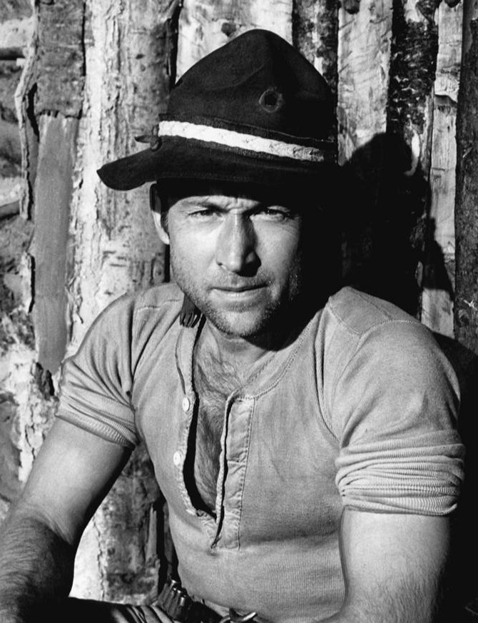 Photo of Nick Adams in a guest-starring role on the television program The Monroes.